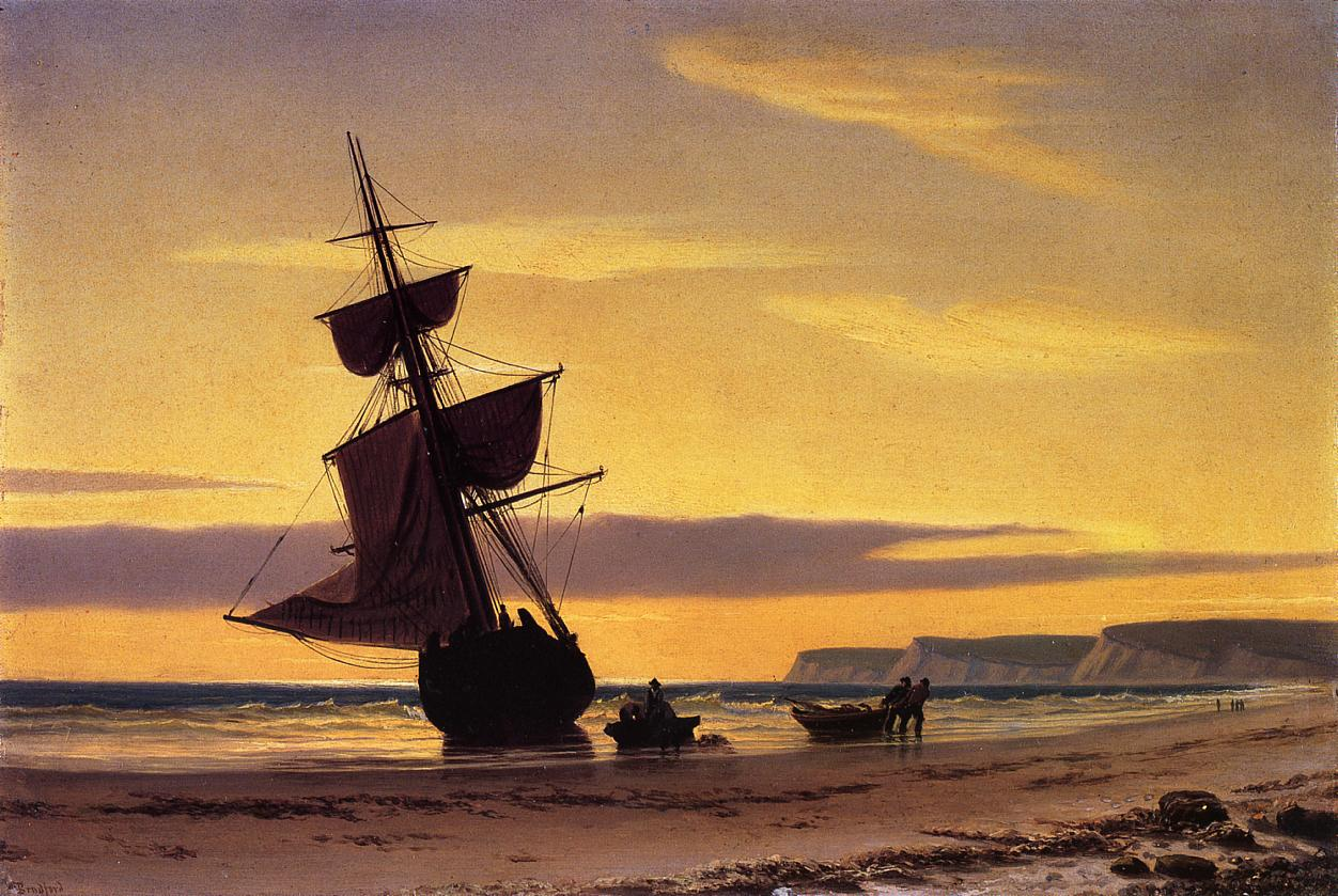 Coastal Scene